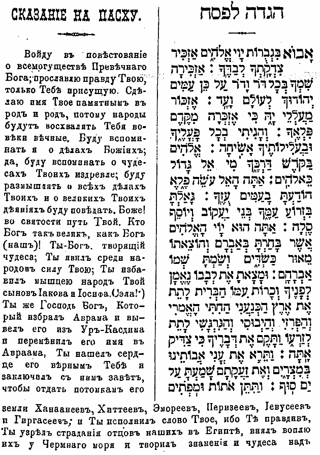 Karaim Haggadah for Passover Eve According to the Custom of the Karaites with a translation in the Russian Language by Shlomoh Prik, Odessa 1901.